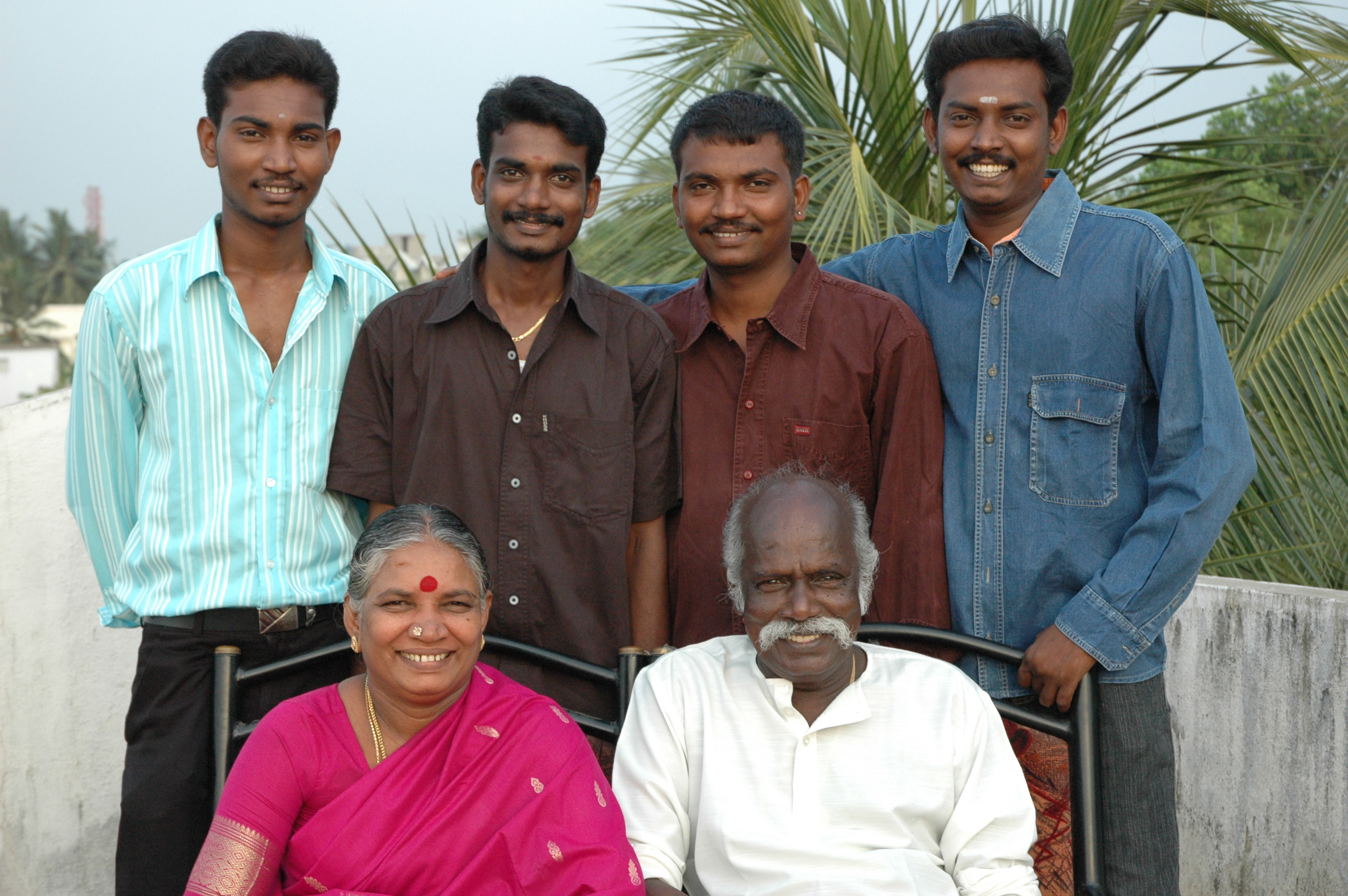 Family